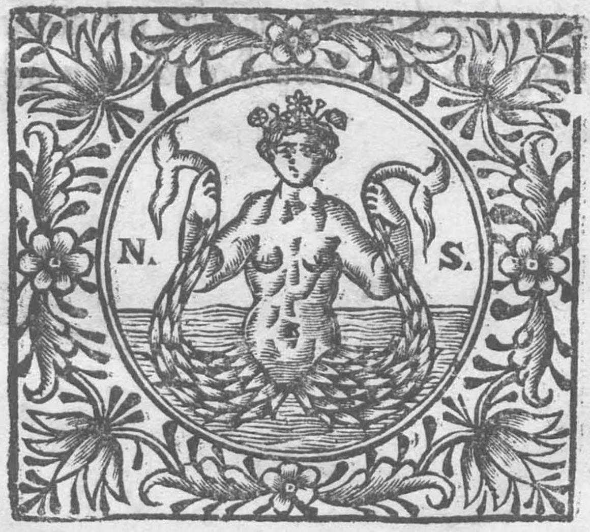 This is the print mark of a greek book printer